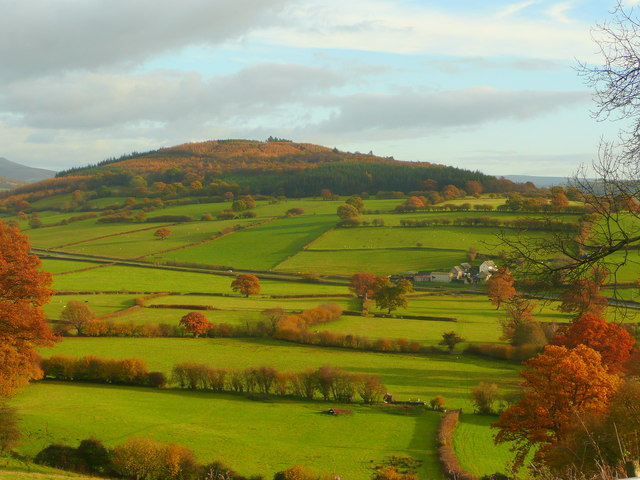 View east from Bwlch 3 Looking south-east across to the wooded dome of Myarth. The A40 passes across the scene in the middle distance.